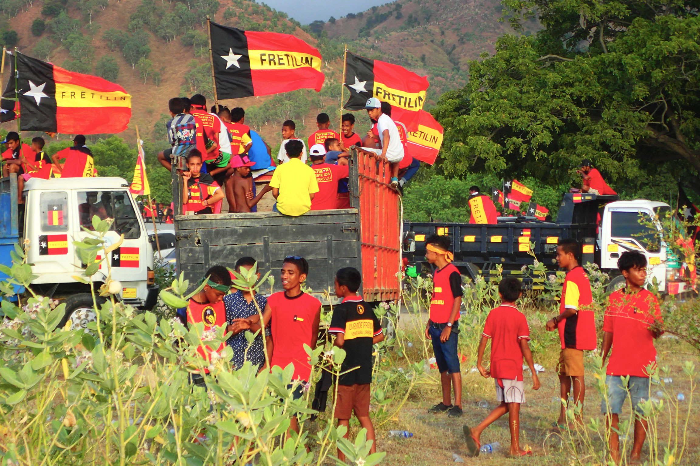 FRETILIN election campaign in Tasitolu 2018